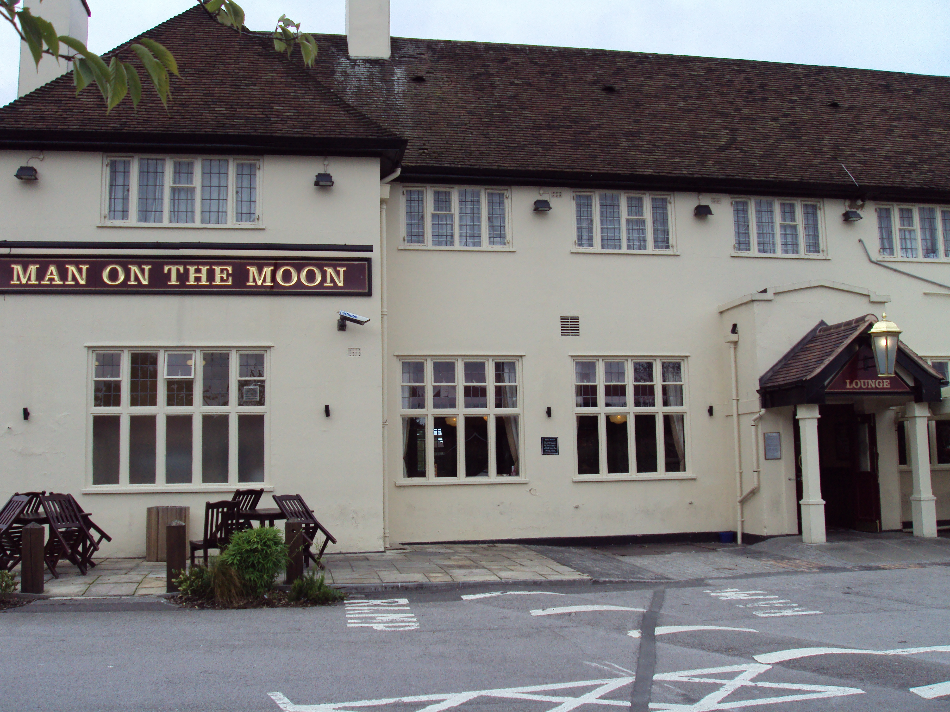 Man on the Moon pub on the A441 Redditch Road/Redhill Road roundabout, West Heath, Birmingham, England.